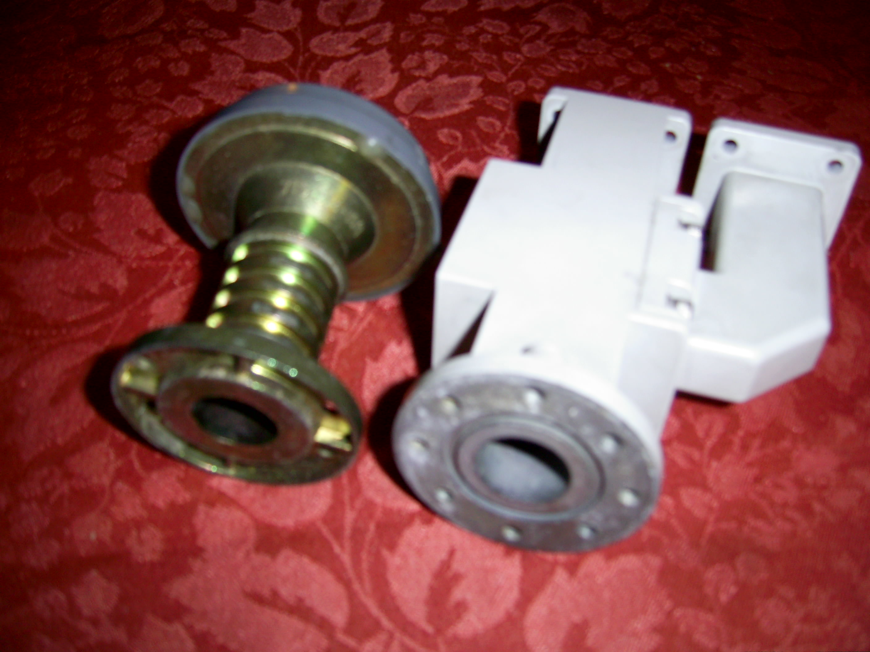 OMT_Polarisation_Circuleur_Feed-Horn Portenseigne 10.95-12.75GHz: Ref.75 541 00LHC 0367/00 Hirschmann, CSA 850 A Circular Polarisation Feed Horn Transducer